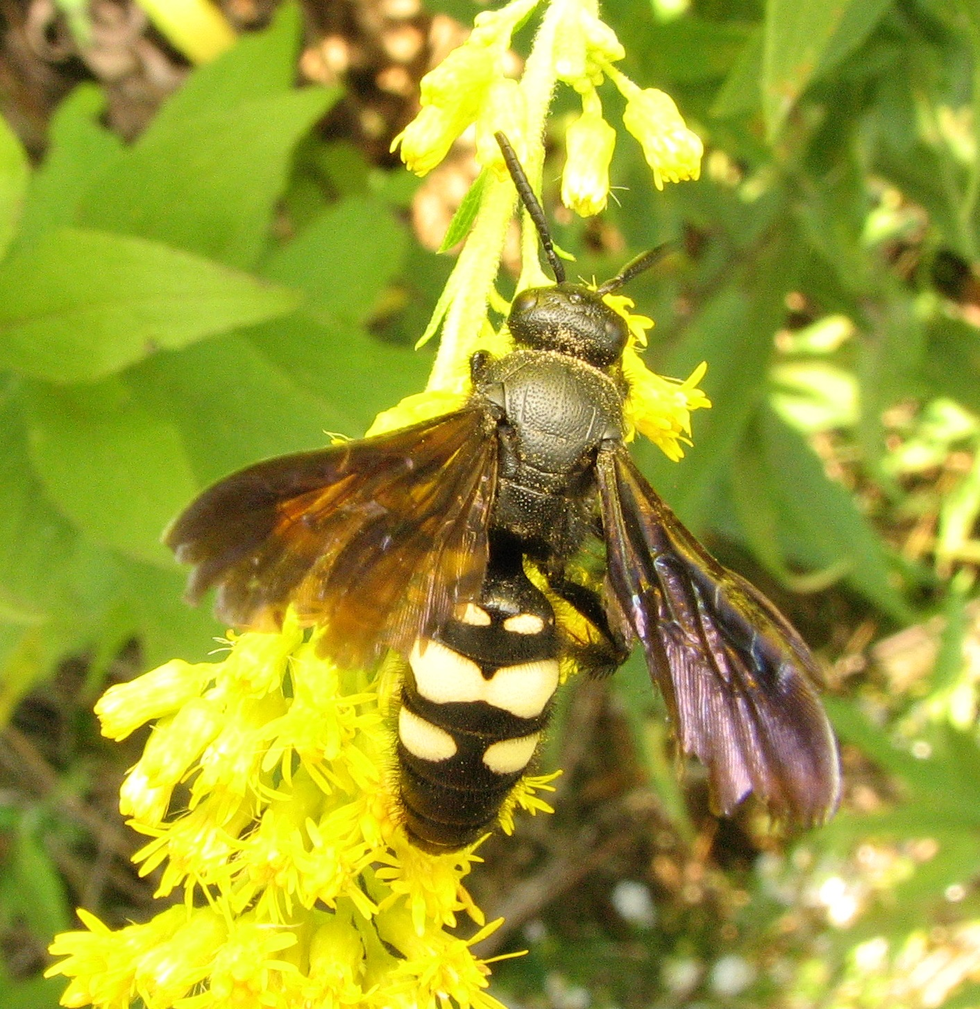 Double-banded Scoliid, Scolia bicincta, female on goldenrod. Horsham Trail, Montgomery County, Pennsylvania, USA.